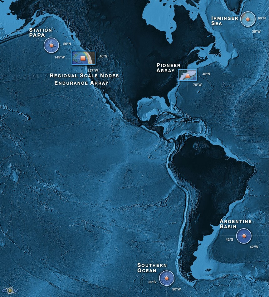 Map of station locations within the Ocean Observatories Initiative. The Ocean Observatories Initiative is project funded by the National Science Foundation.